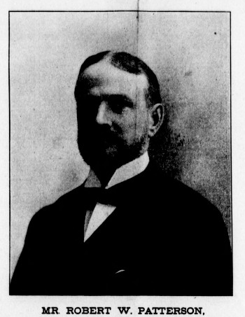 Robert W. Patterson